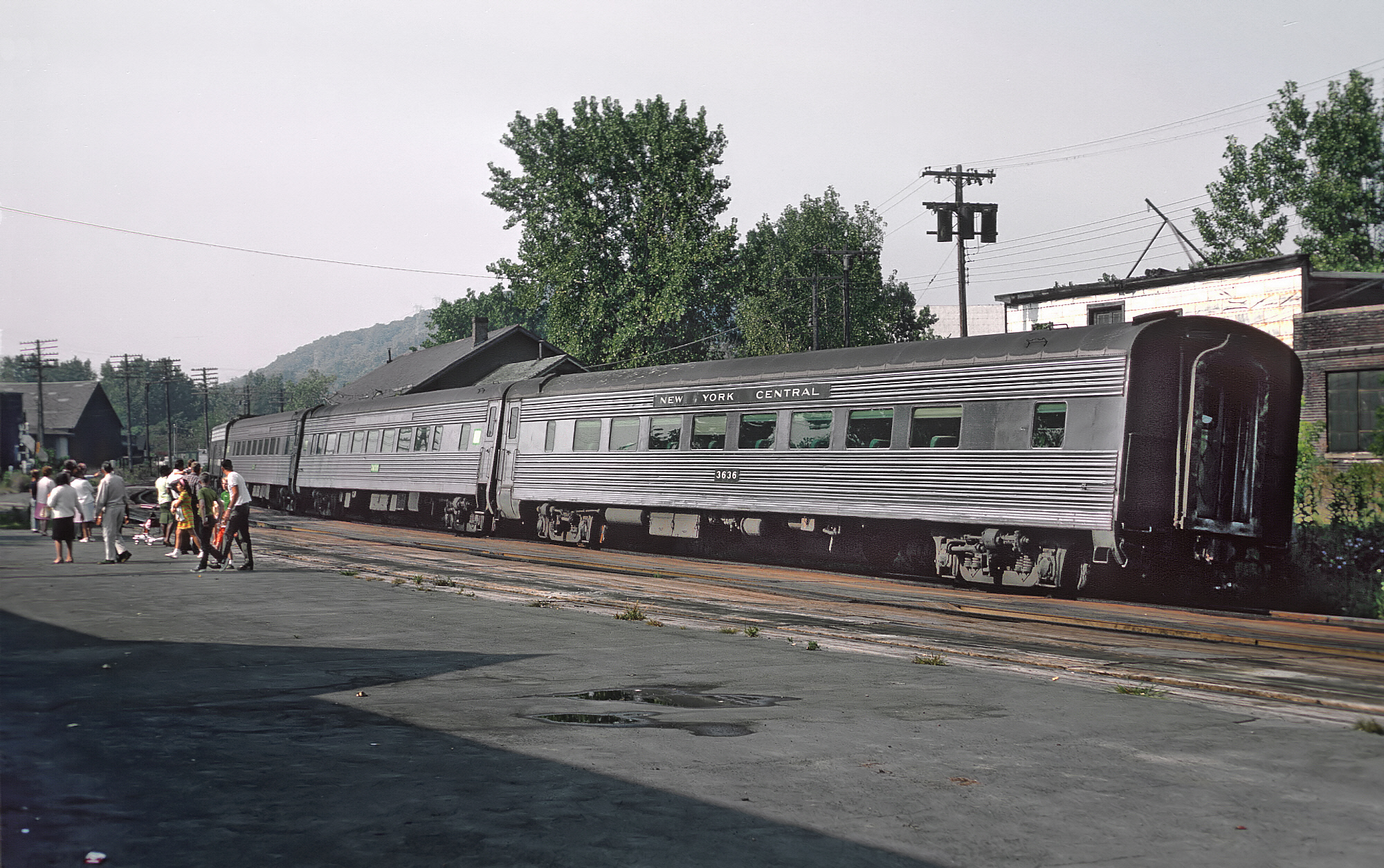 Penn Central Empire Service train #50 departing Hudson station in September 1968